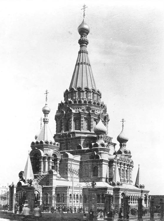 This is a historic photograph showing the greatest Russian Orthodox Church in Baku before Joseph Stalin ordered it demolished in the 1930s.